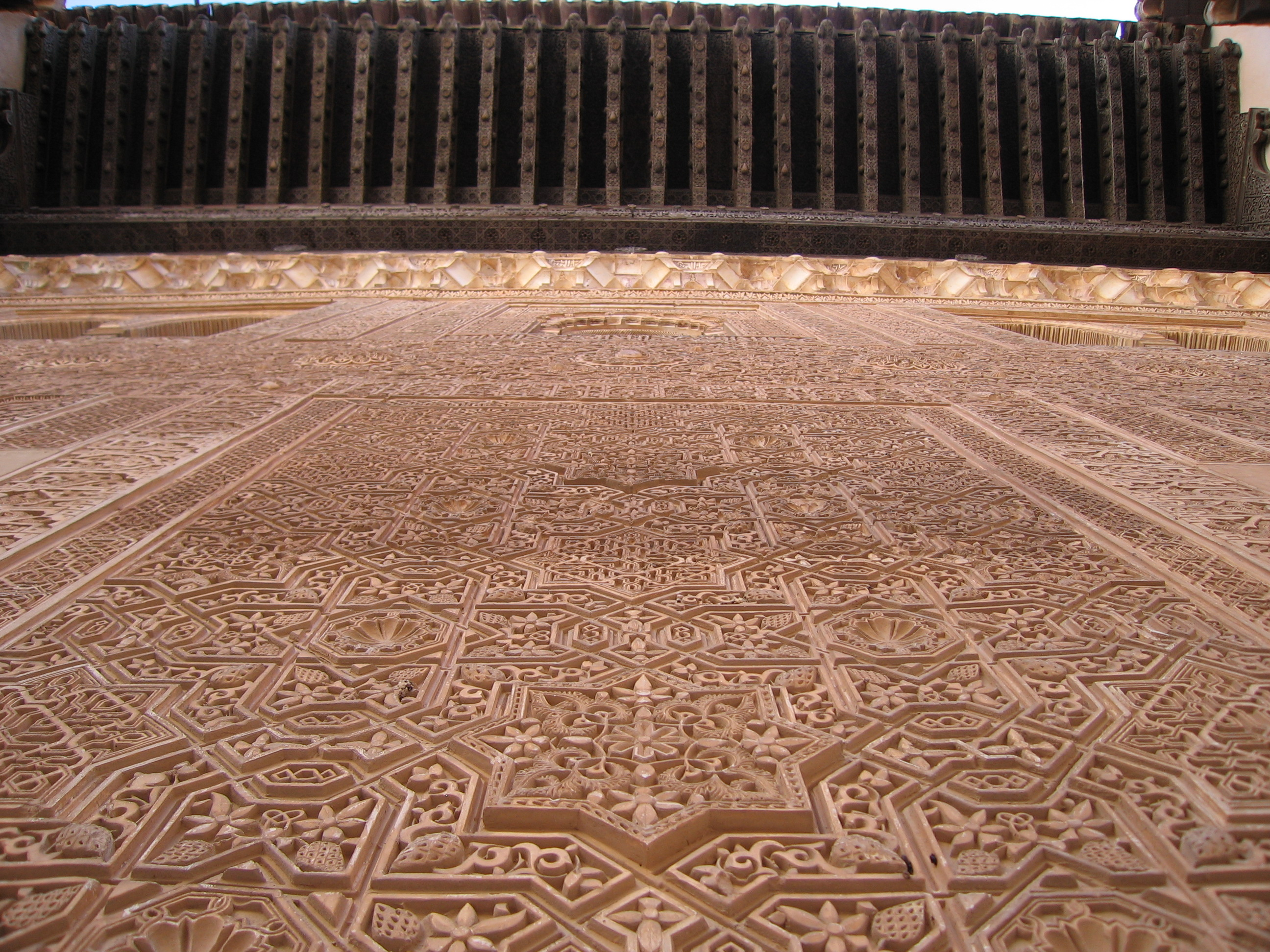 Detail looking up wall, patio del Cuarto Dorado